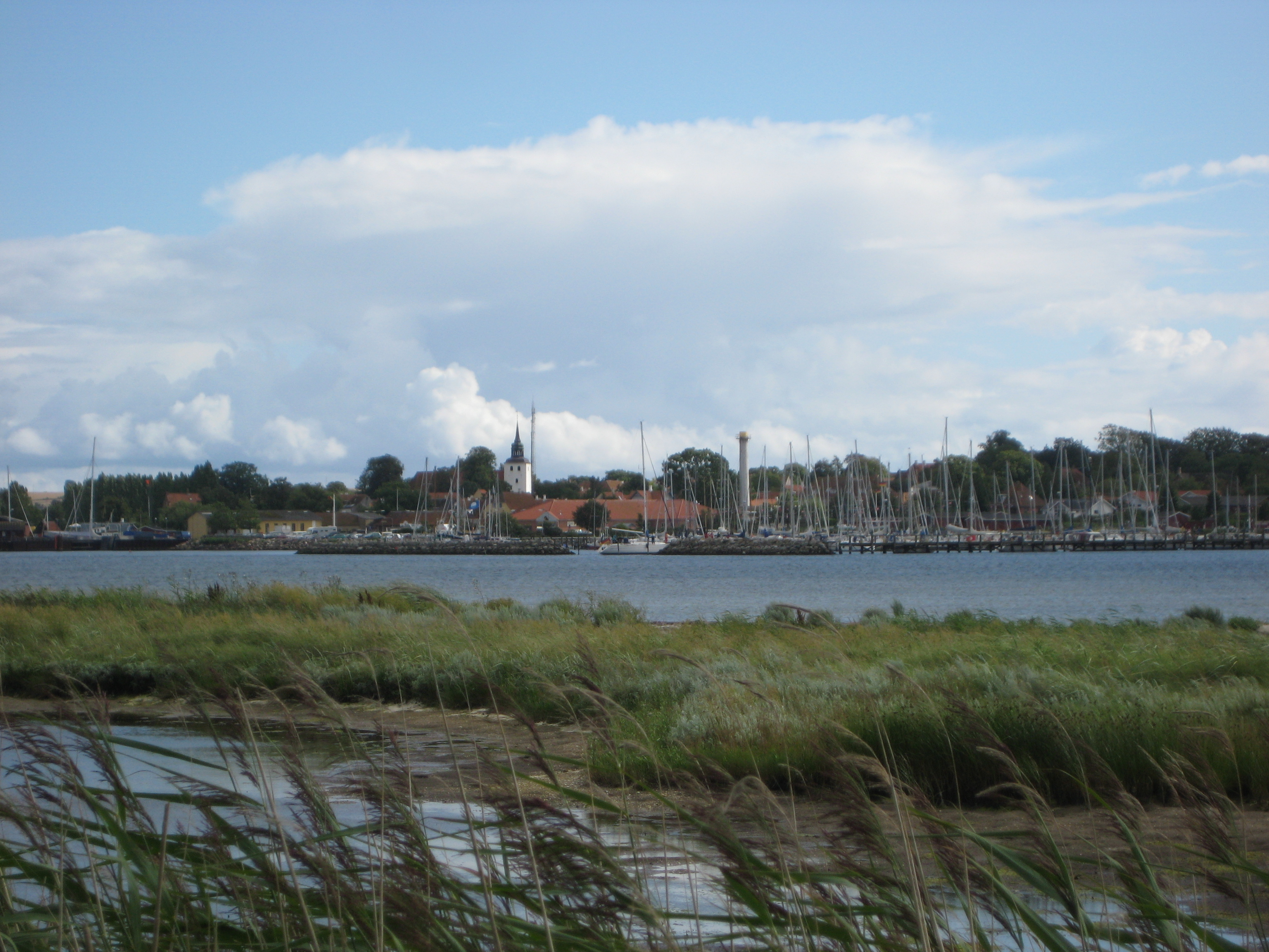 Ærøskøbing